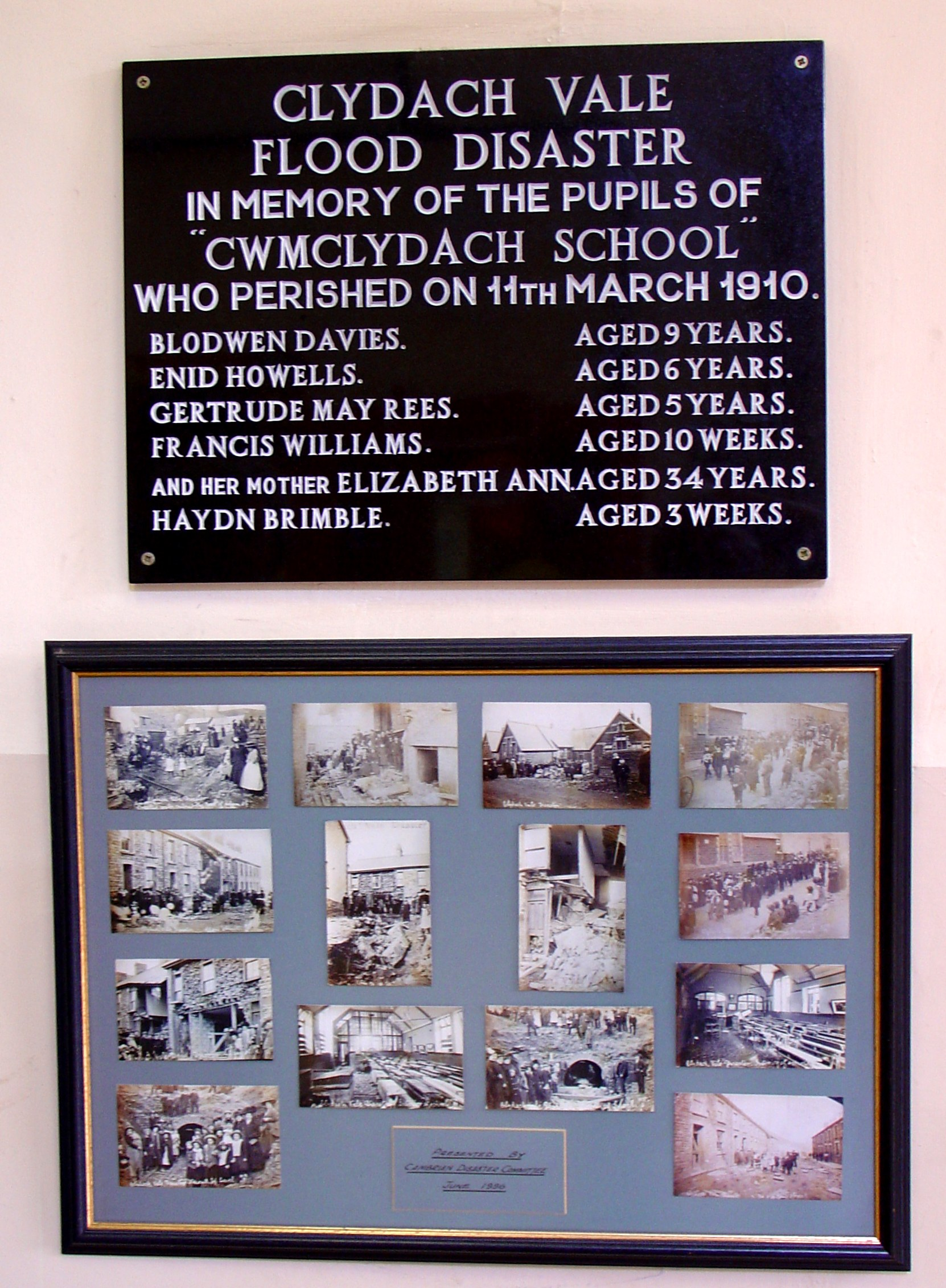 In the entrance hall of Clydach Vale Primary School, this plaque and photo montage commemorates those who died in the disastrous flood of 1910. The list is headed by three schoolchildren who could not be saved, followed by the names of a woman and two babies who died closer to the flood's origin.